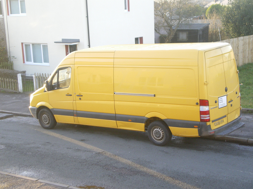 Yellow Mercedes Benz Sprinter